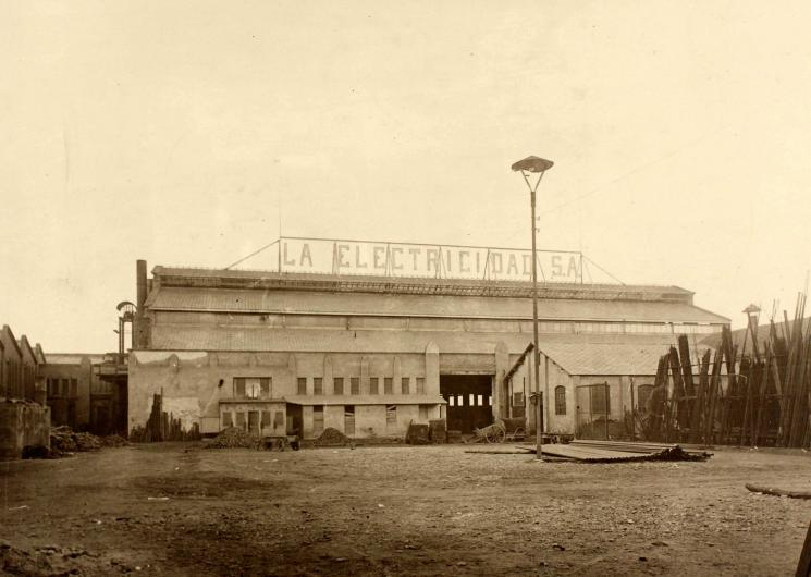 La Electricidad, SA, electriicty factory in Sabadell